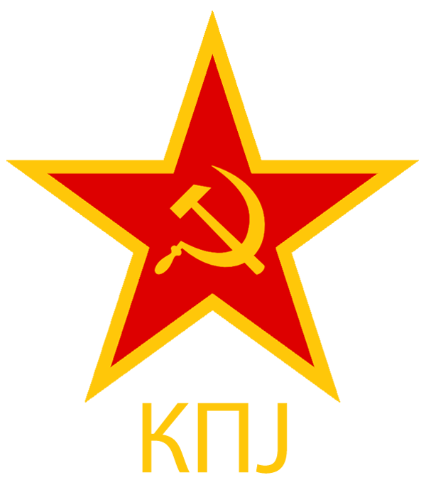 Emblem of the KPJ (Cyrillic)